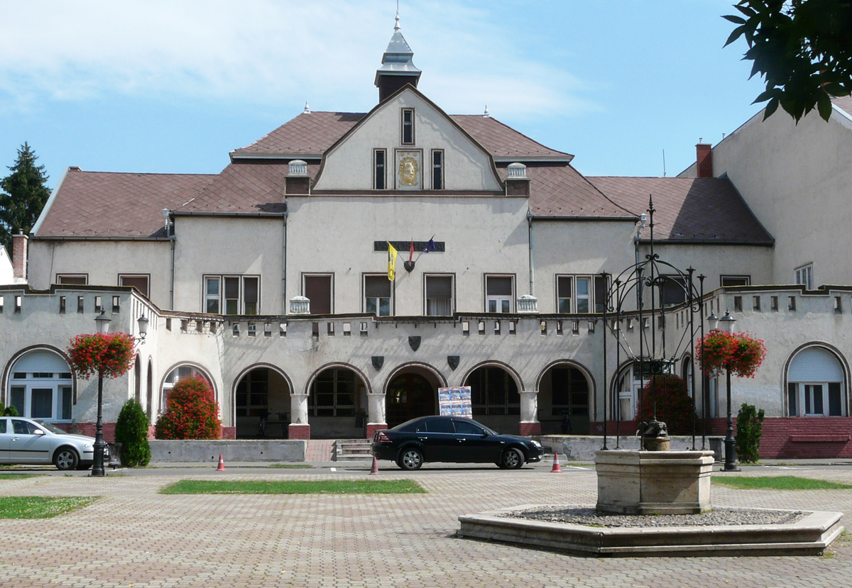 Town Hall central part. - 2 Kossuth Square, Hatvan, Heves County, Hungary.